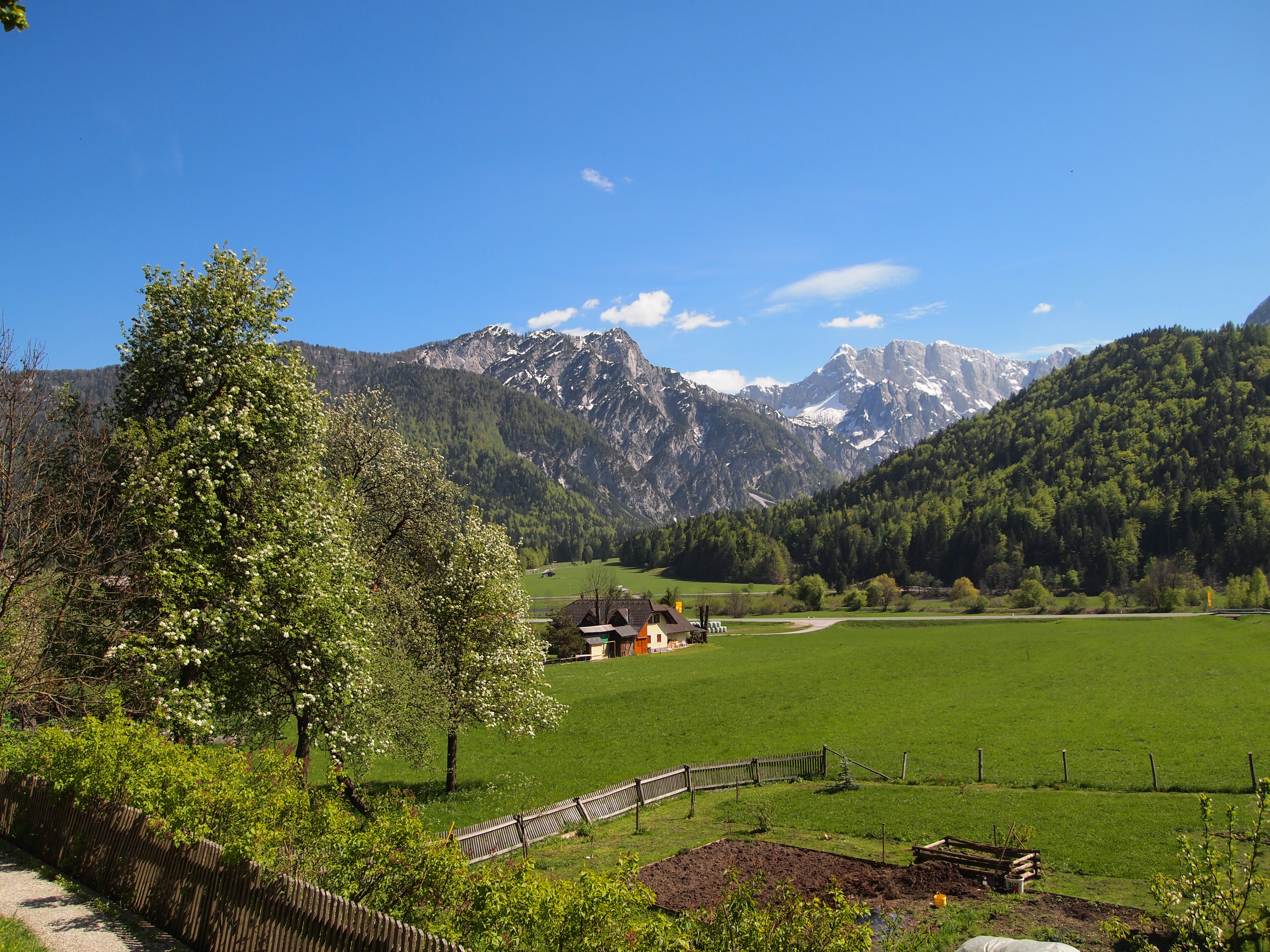 View from Rateče to the mountains. This photograph was taken with an Olympus E-PL1